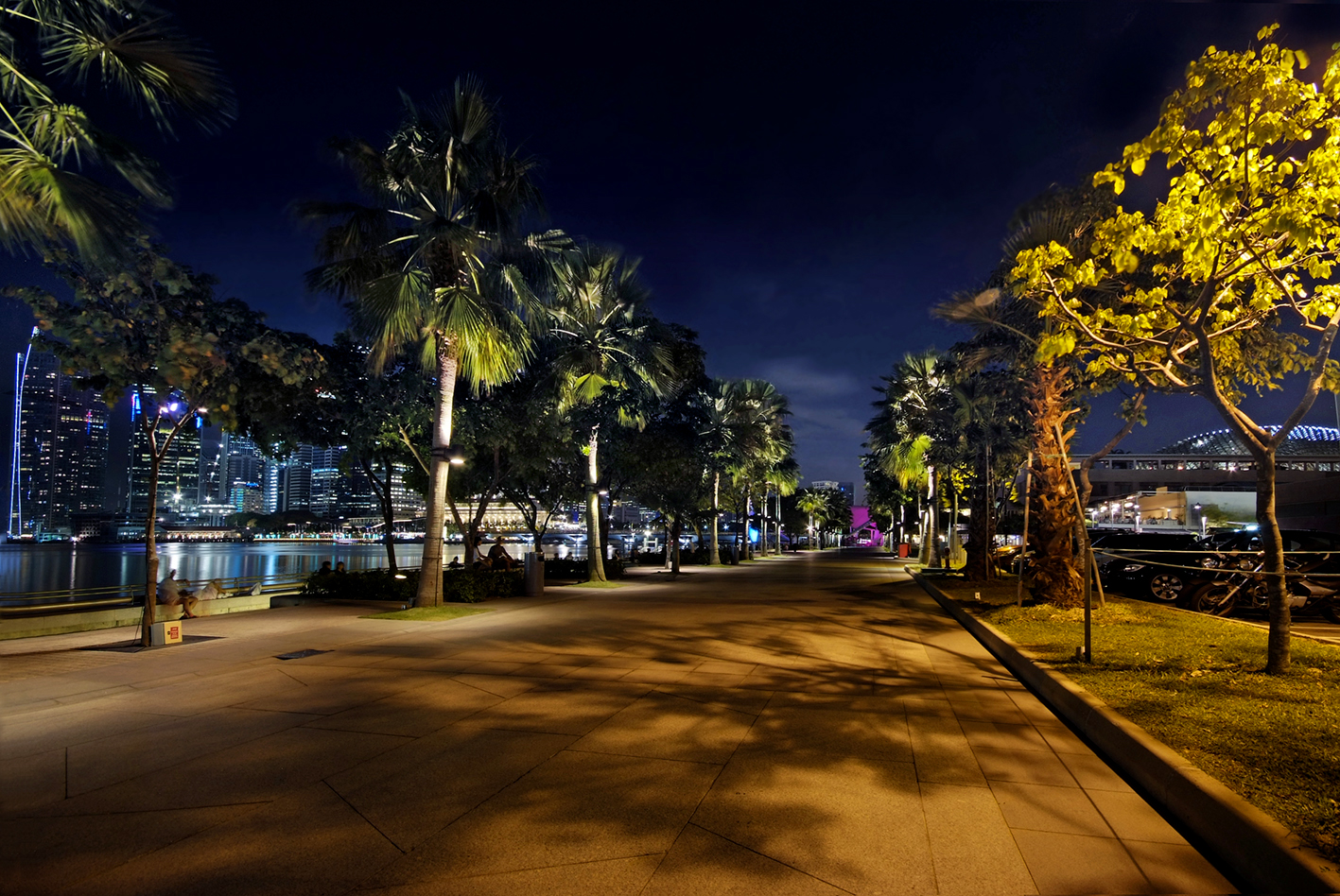 A night view of Marina Promenade, a perfect place to enjoy the scenic surroundings of Marina Bay. (Not an HDR process but a blending of two files. The bottom half is almost straight off the cam. As for the upper half which appears too dark on the original, I used a "Shadow/Highlight" adjustment tool to brighten the dark shades without affecting the lighter shades. I finished off by increasing some blues to the sky area and applying an unsharp mask.)